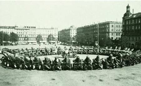 The picture was taken on the square Grønttorvet in central Copenhagen in 1931. Grønttorvet was renamed Israels Plads in 1968. The picture shows ready-mix concrete trucks from A/S De danske Betonfabrikker on parade.